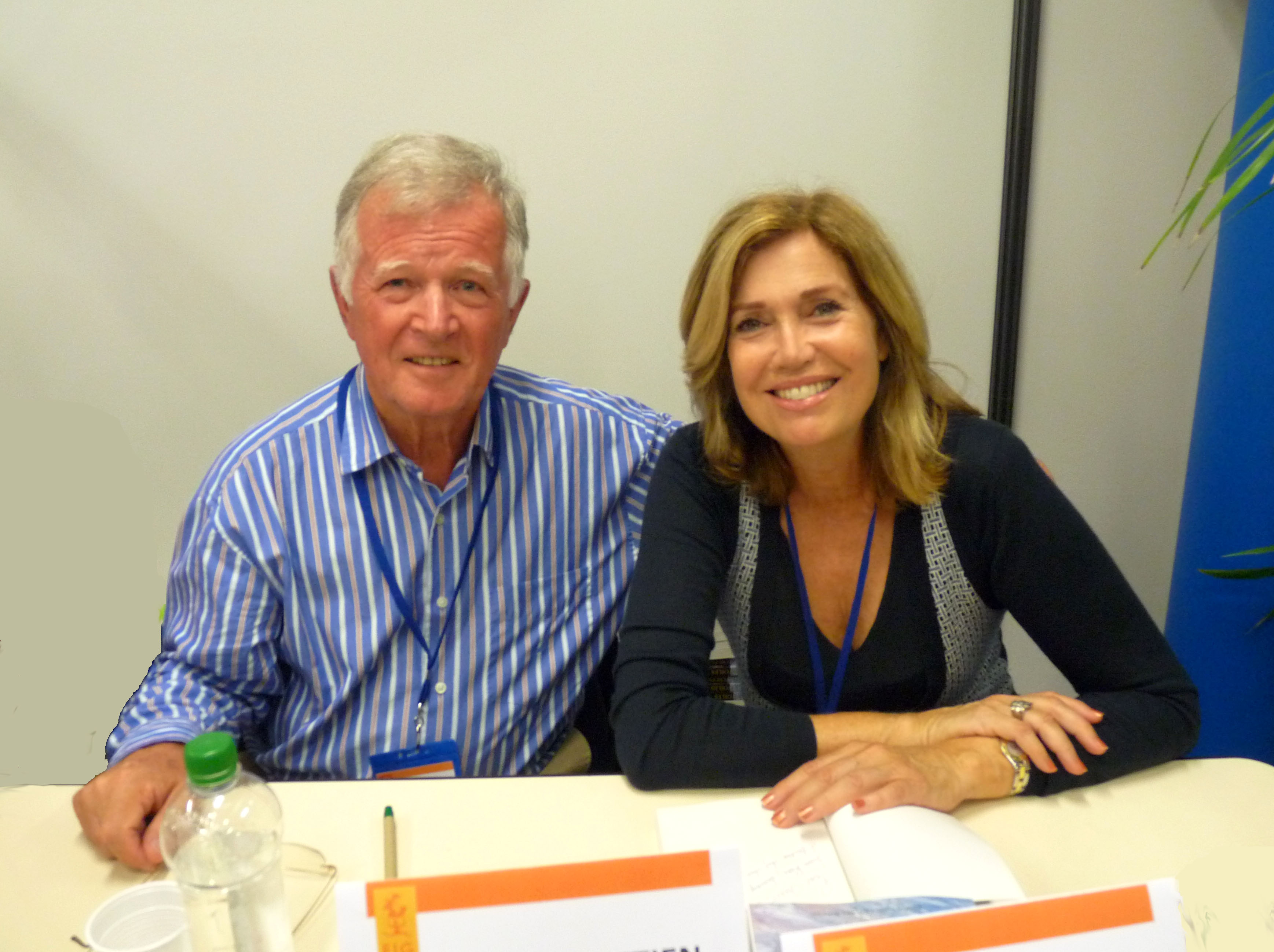 French astronaut Jean-Loup Chrétien and actress Catherine Alric